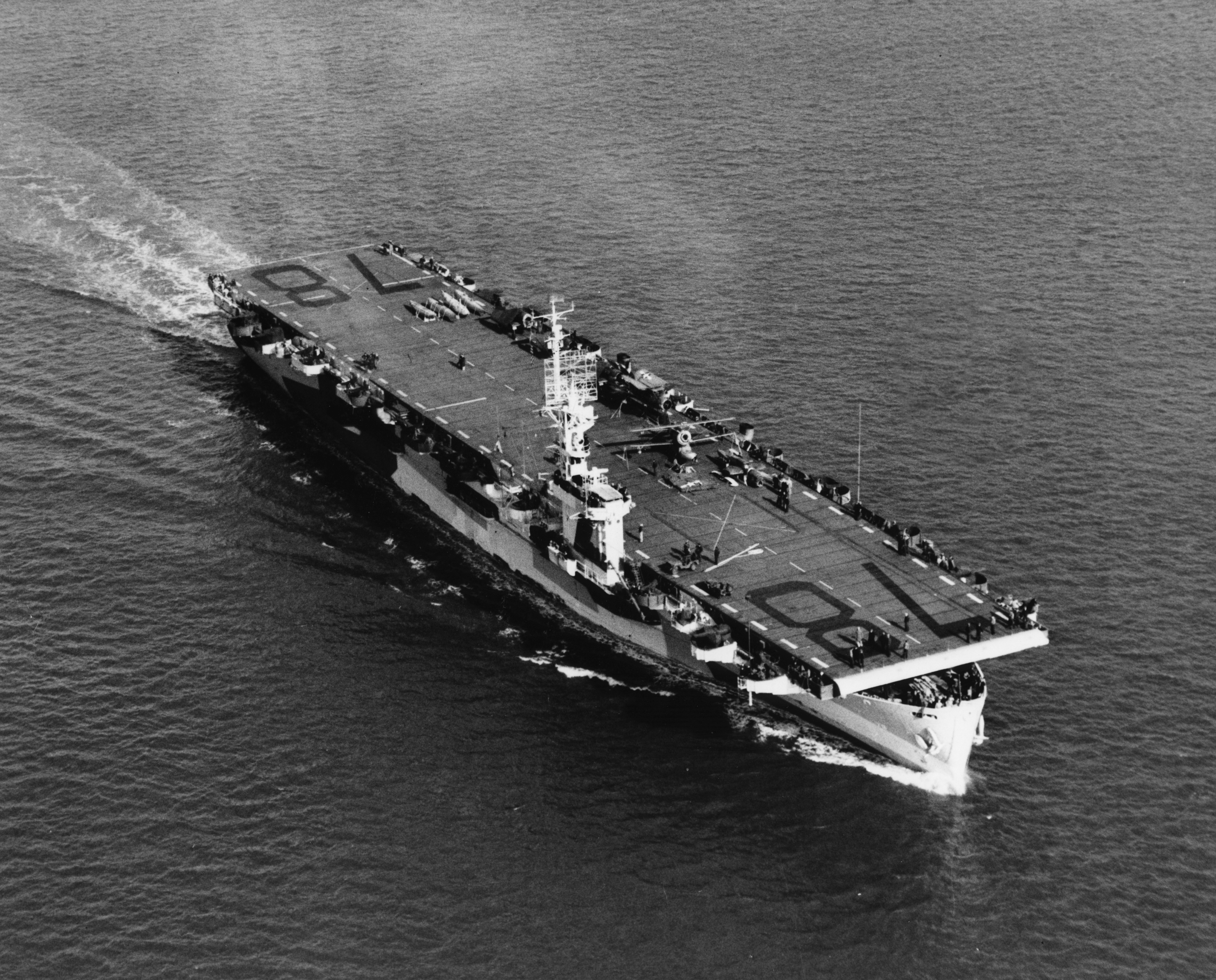 The U.S. Navy escort carrier USS Savo Island (CVE-78) underway in May 1944, location unknown. Note dismantled SO3C Seamew, a J2F Duck (minus its engine), and SOC Seagull and three F6F Hellcats lining the port side, with spare floats lashed down aft.